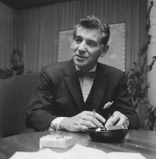 Photograph of the American composer and conductor Leonard Bernstein during his visit to Finland.